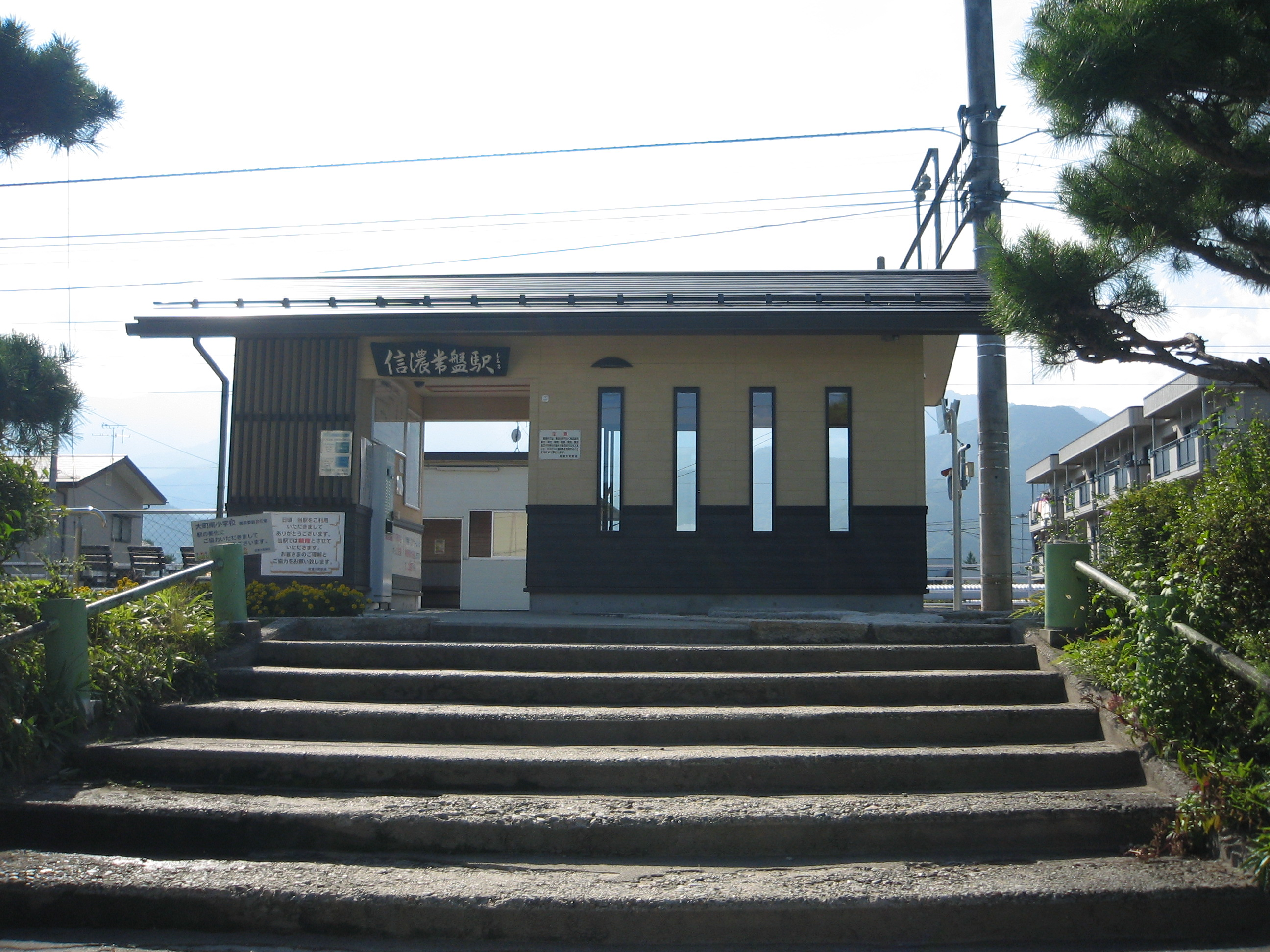 JR East Shinano-Tokiwa Station building